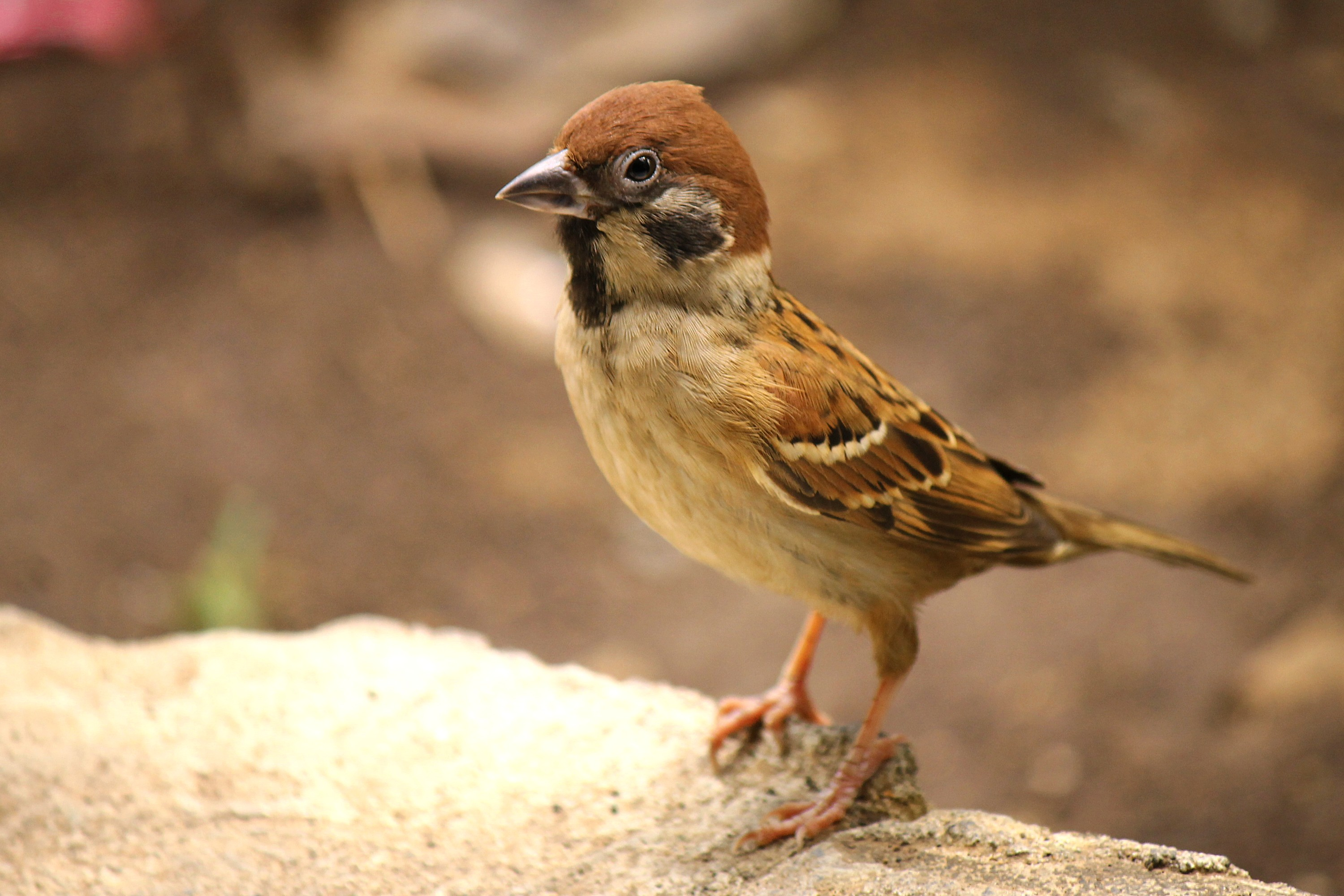 Eurasian Tree Sparrow (Passer montanus malaccensis) in Manado, North Sulawesi